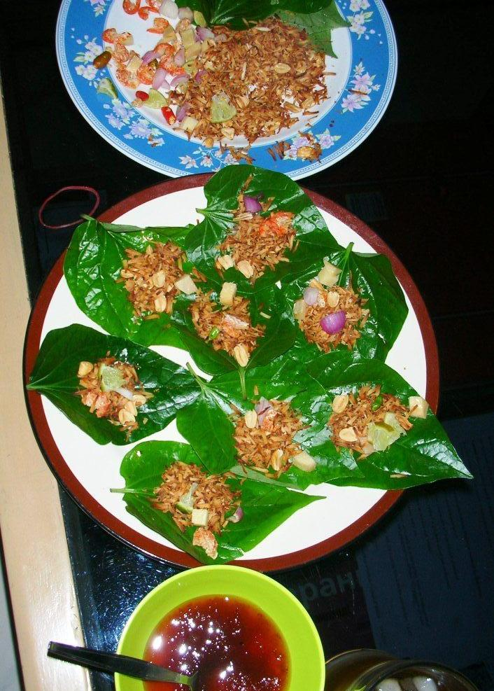 Miang kam; เมี่ยงคำ; traditional Thai snack using Piper sarmentosum leaves